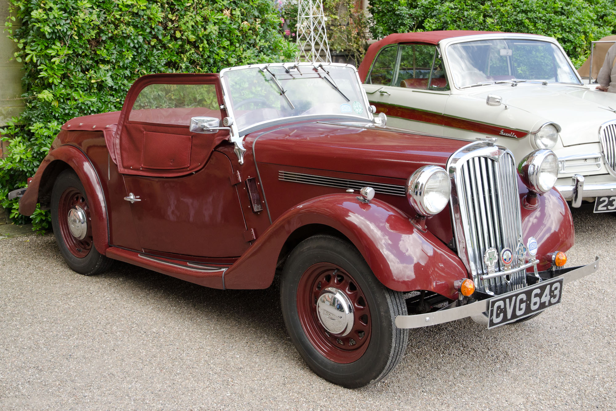 1948 Singer 9 Roadster (DVLA) manufactured 1948, 1074 cc Capesthorne Hall Classic Car Show 27/07/2014